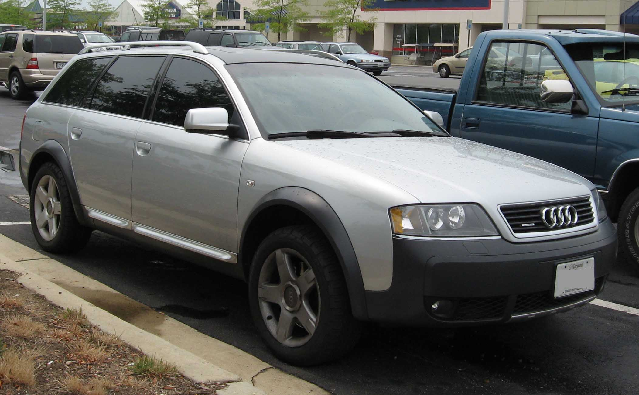 Audi Allroad photographed in USA.